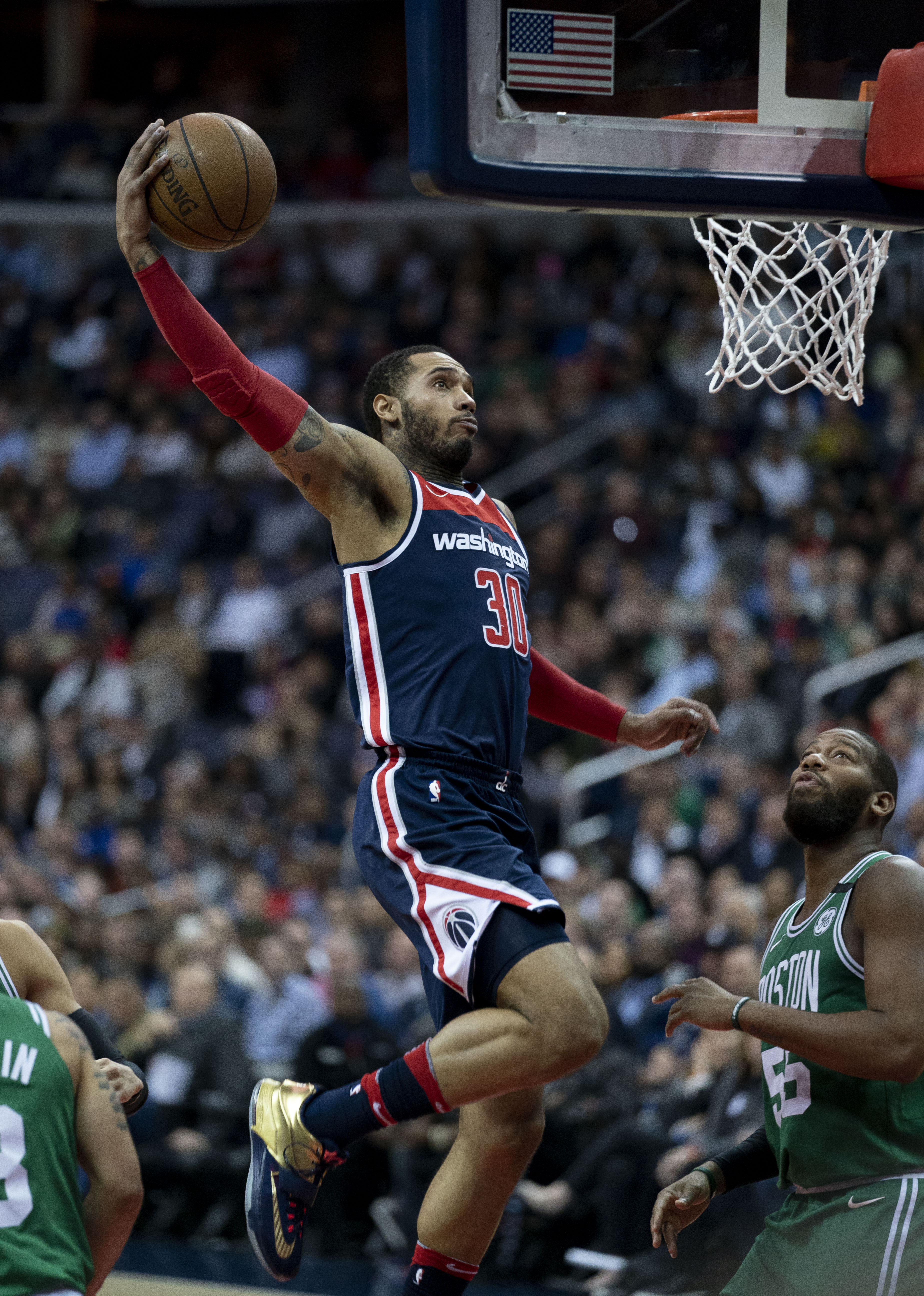 Celtics at Wizards 4/10/18